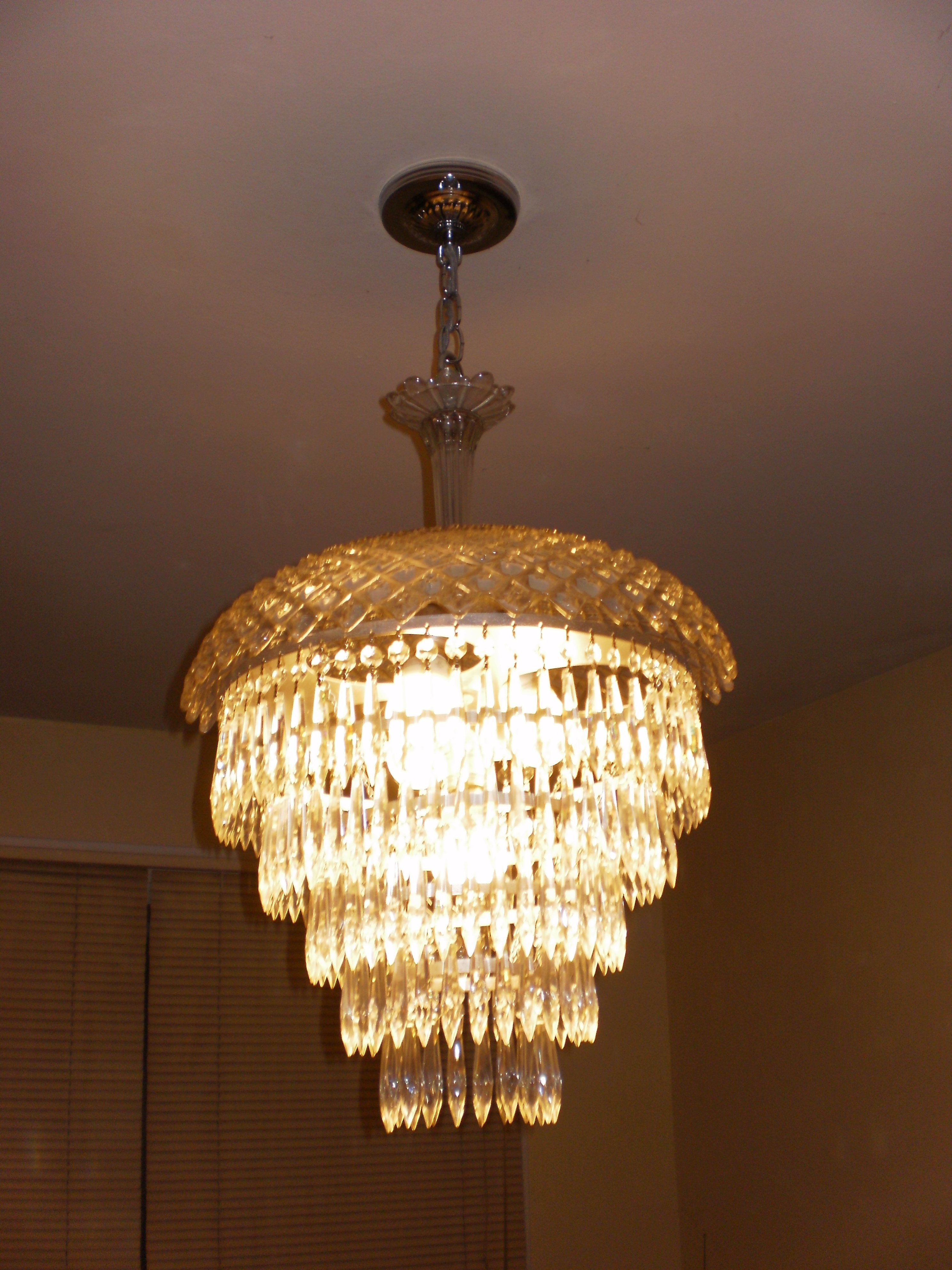 A five tier wedding cake (or waterfall) chandelier